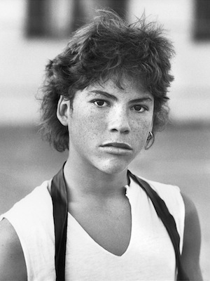 Teenage actor Georg Olden on the set of the feature film Bad Manners, Los Angeles, California.